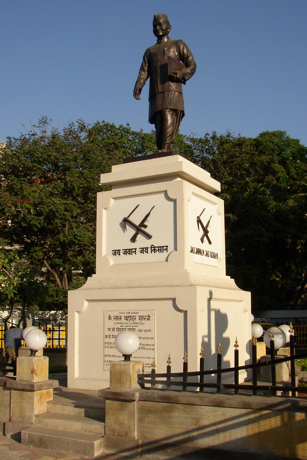 Shastri statue in Mumbai in Maharashtra, India